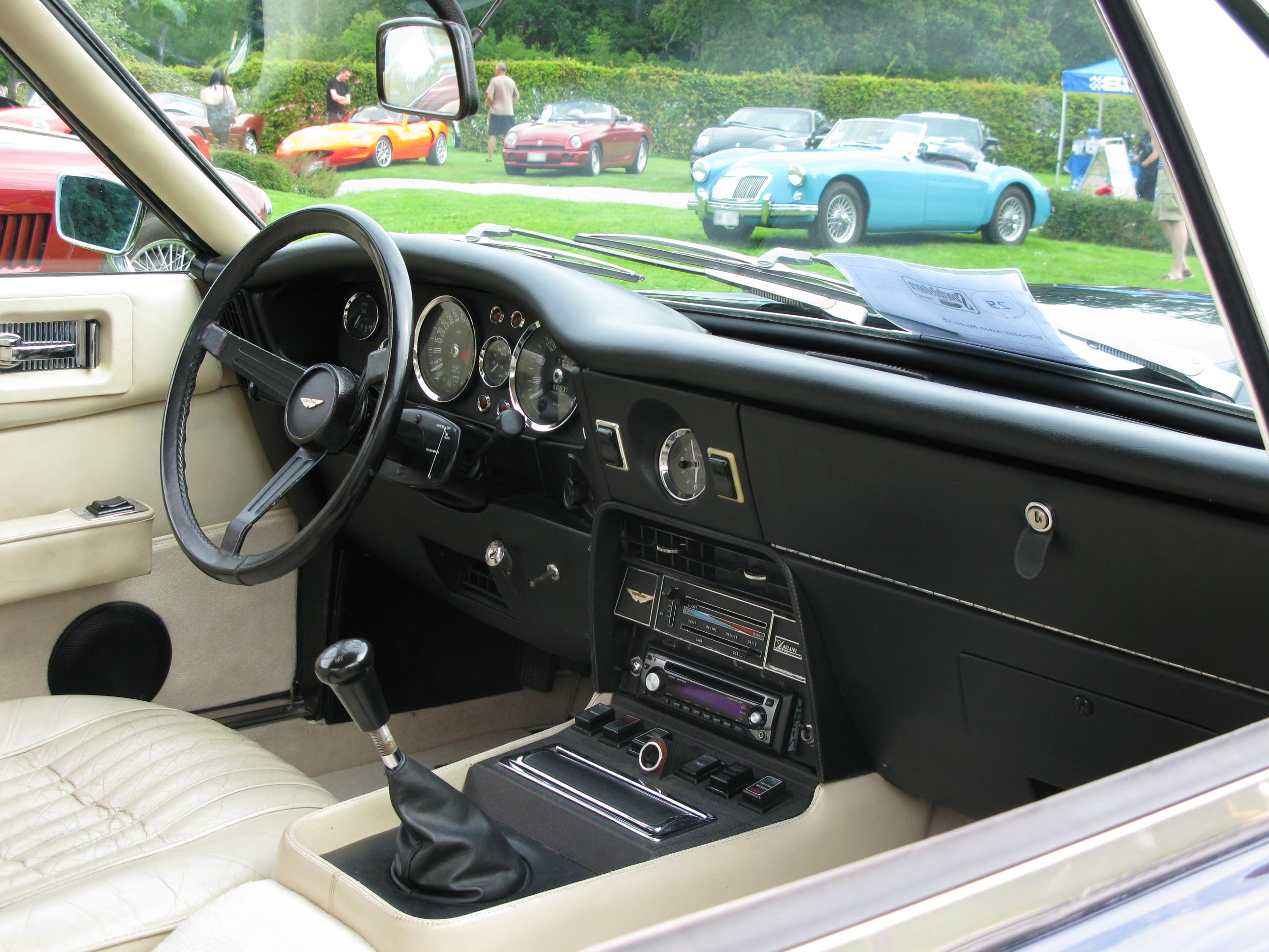 1973 Aston Martin V8.Event: Sportbilsdagen i Västervik 2012.